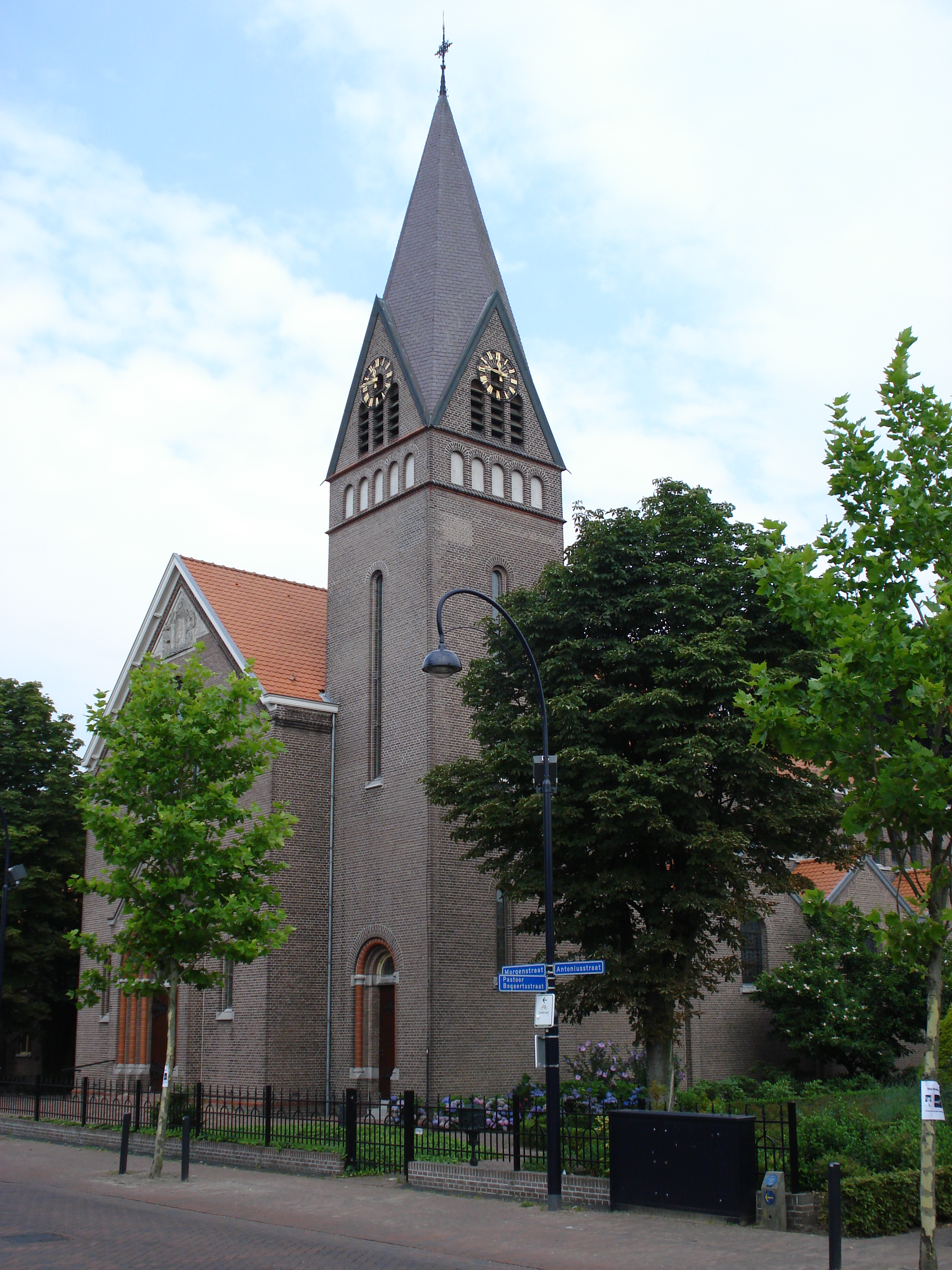 Keldonk (N-Br, NL) church, edge view